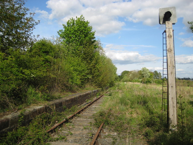 Claydon railway station Original description: Claydon Station (former) Claydon was a station on the London & North Western Railway's line between Oxford and Bletchley. The line and the station opened in 1851 and closed at the end of 1967, although, as can be seen here, the trackwork was left in situ. Various proposals have been put forward to reinstate the line as a rail link between Oxford and Cambridge via Bletchley. Of the station only the eastbound platform, visible here, remains, while a rather rudimentary wooden post holds a derelict signal lamp.